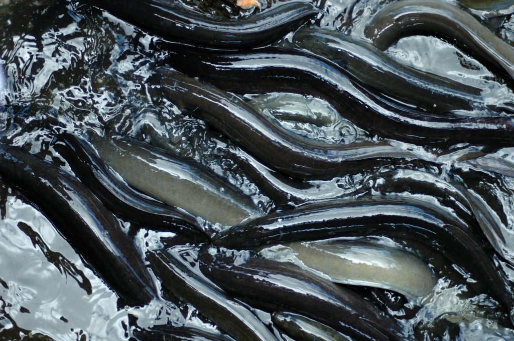 Taken at Western Springs, New Zealand, this is an orgy of eels eating bread that a young boy was throwing into the water.